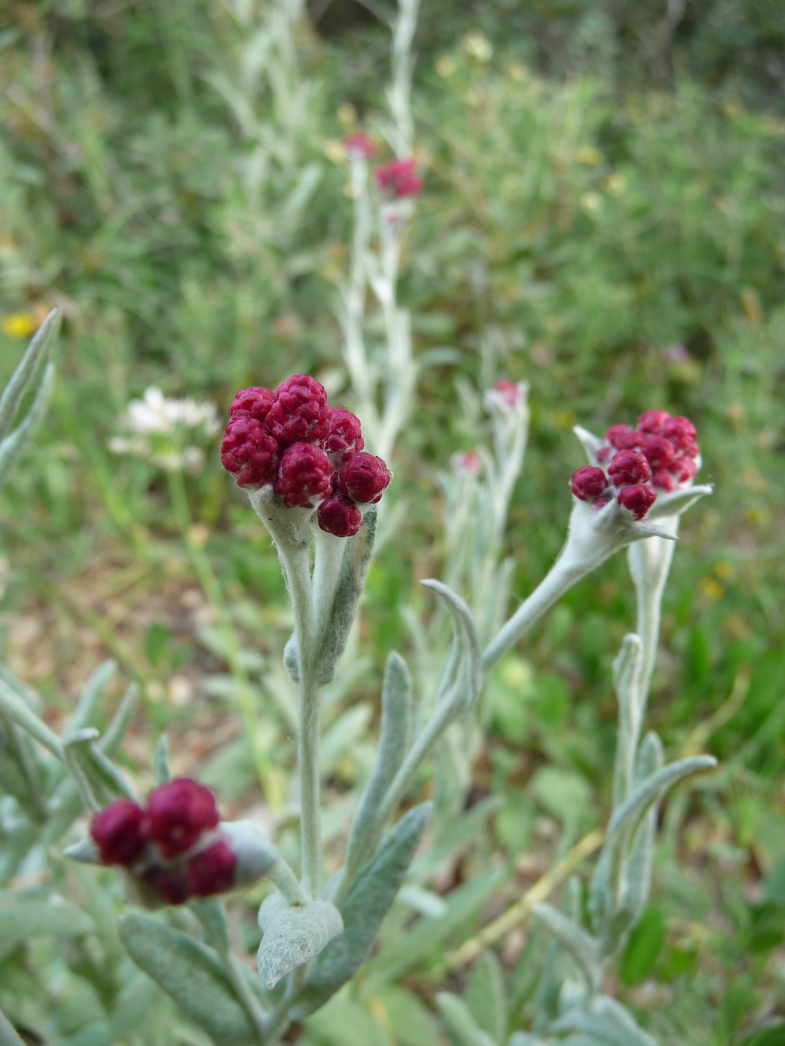 Carmel Park